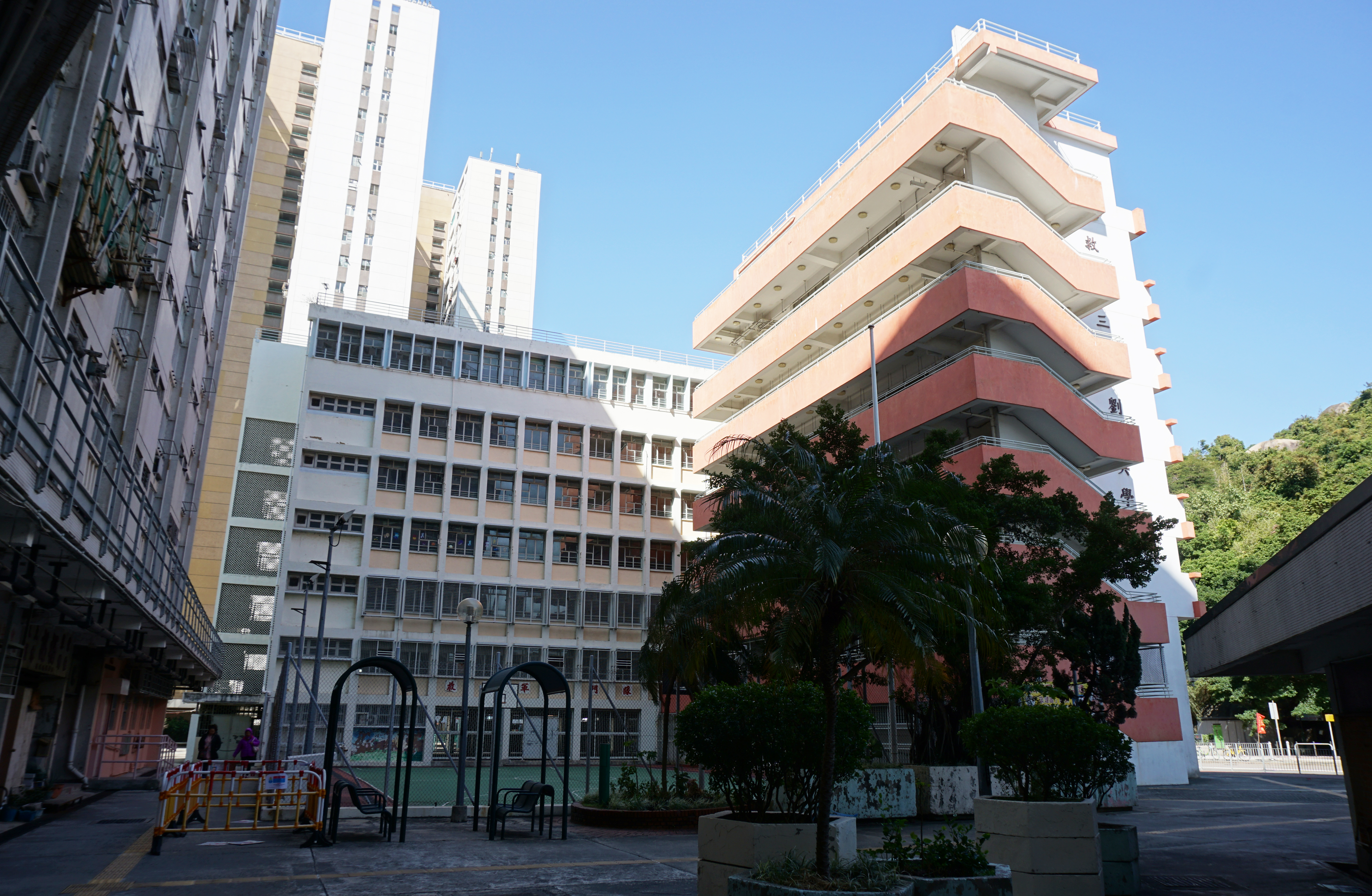 Former The Salvation Army Sam Shing Chuen Lau Ng Ying School in Tuen Mun, Hong Kong.